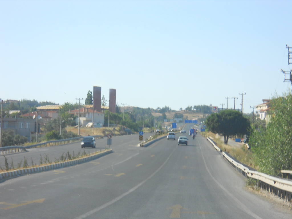 Muğla-Aydın state road